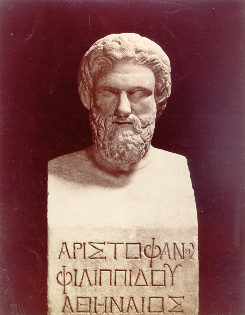 Bust of Aristophanes in the Uffizi Gallery, Florence, Italy.